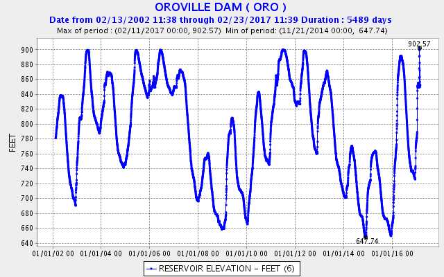 Plot showing Oroville Lake Elevation 2017 - 15 Years